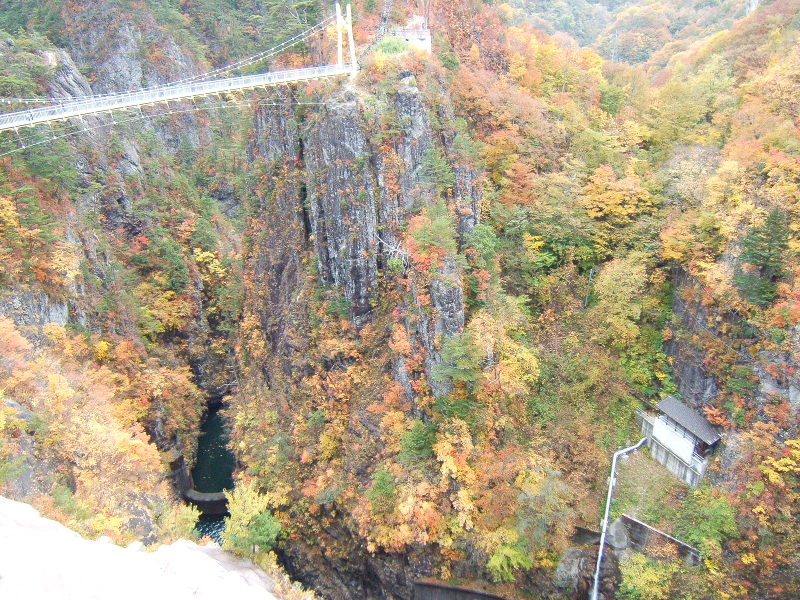 Setoaikyou Valley and "Setoaikyou-watarassyai Bridge" from Kawamata Dam, in autumn. Nikko, Tochigi, Japan.